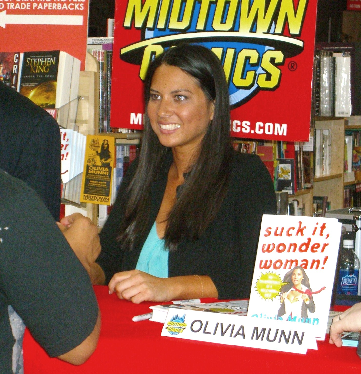 Actress/comedienne Olivia Munn at a signing for her 2010 book, Suck It, Wonder Woman: The Misadventures of a Hollywood Geek at Midtown Comics Times Square, July 9, 2010. Photo by Luigi Novi. This photo may be used and modified, for any purpose, only if the photographer is visibly credited in each instance in which it is used. (See licensing information below.) For more information on my photos, you can contact me here.